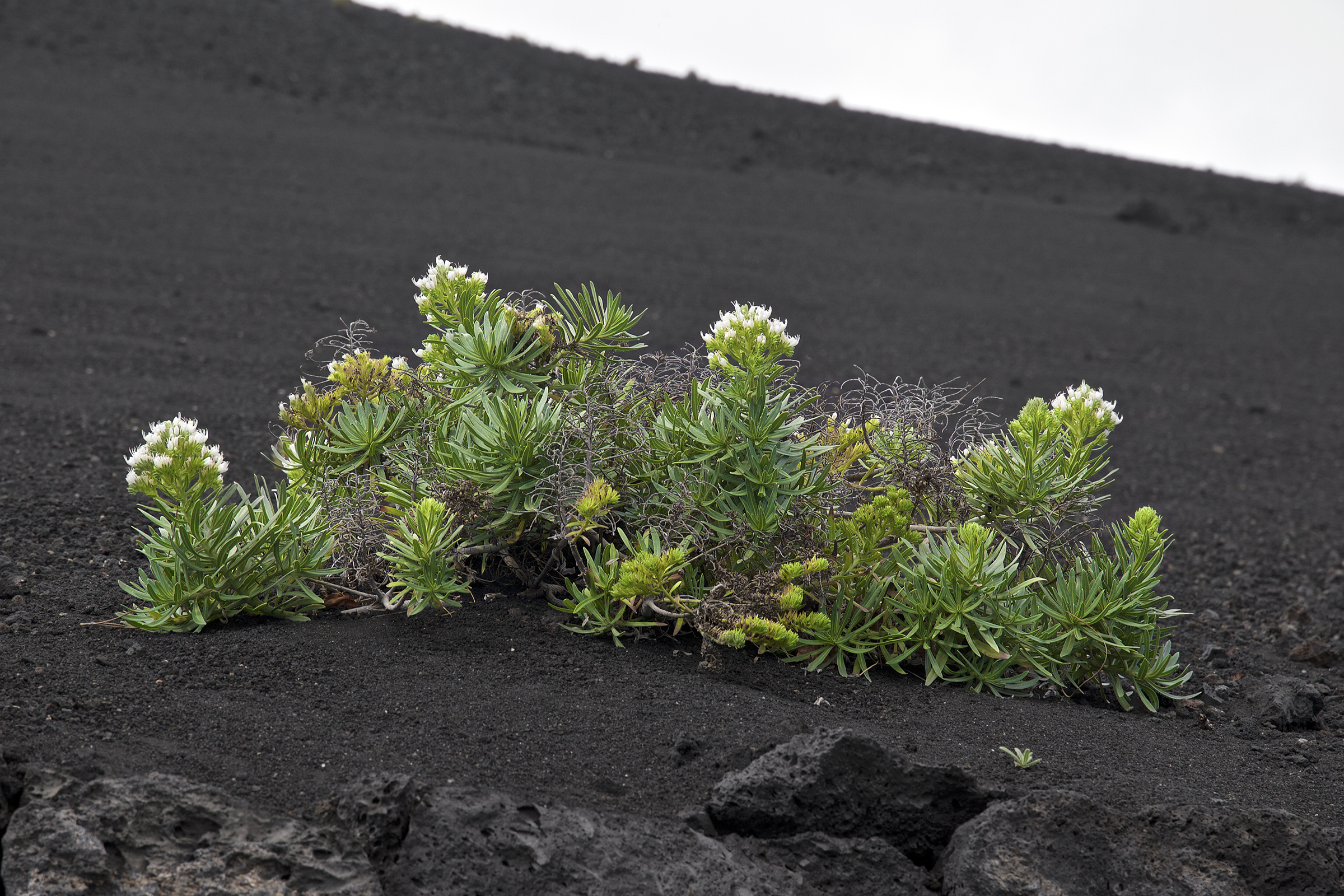 Echium brevirame, La Palma, Canaray islands, Spain